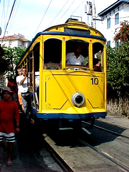 Bondinho (sempre cheio), em Santa Teresa Photo taken by Brenomendes and released under the Public Domain